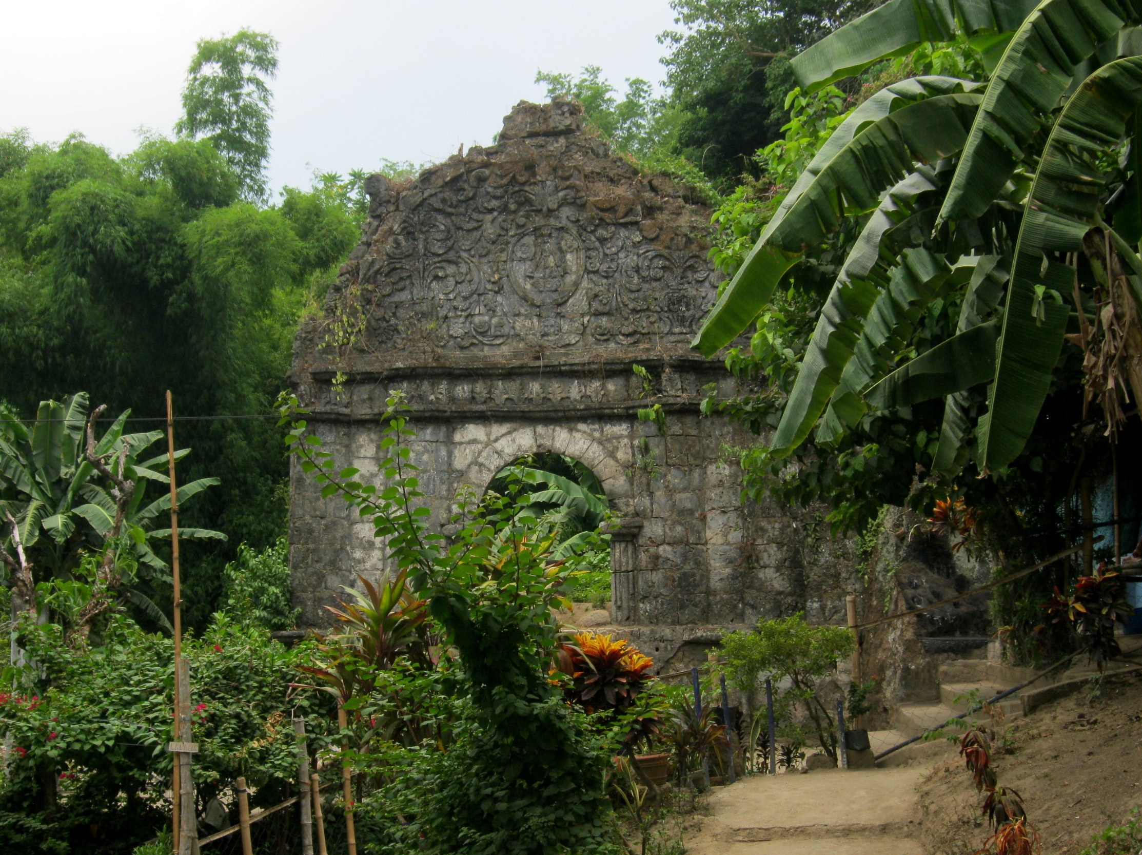 The monument commemorating the apparitions in Caysasay